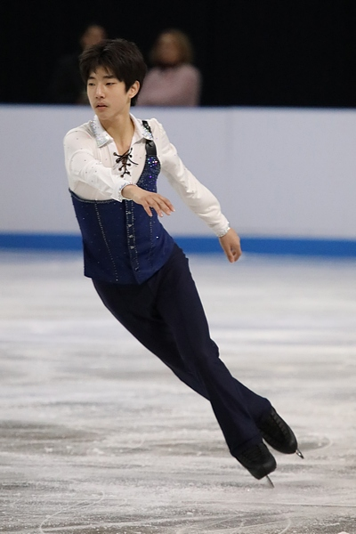 Photos – Junior World Championships 2018 – Men (Younghyun CHA KOR – 19th Place)